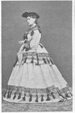 Photographic portrait of German opera and operetta singer Amalie Kraft (1840-1866) from the time of her engagement in the Carltheater in Wien (1864/65)